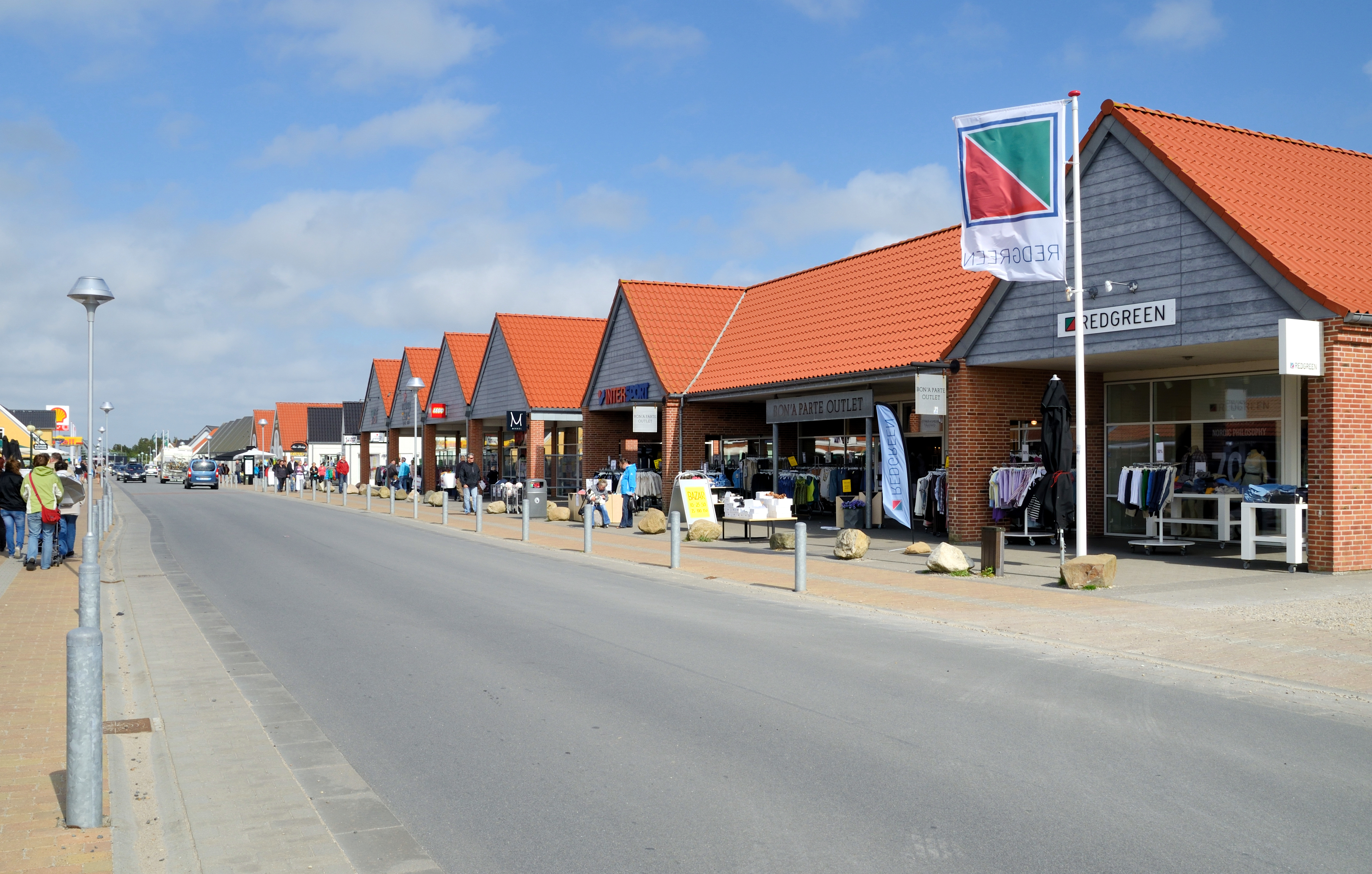 Blåvand